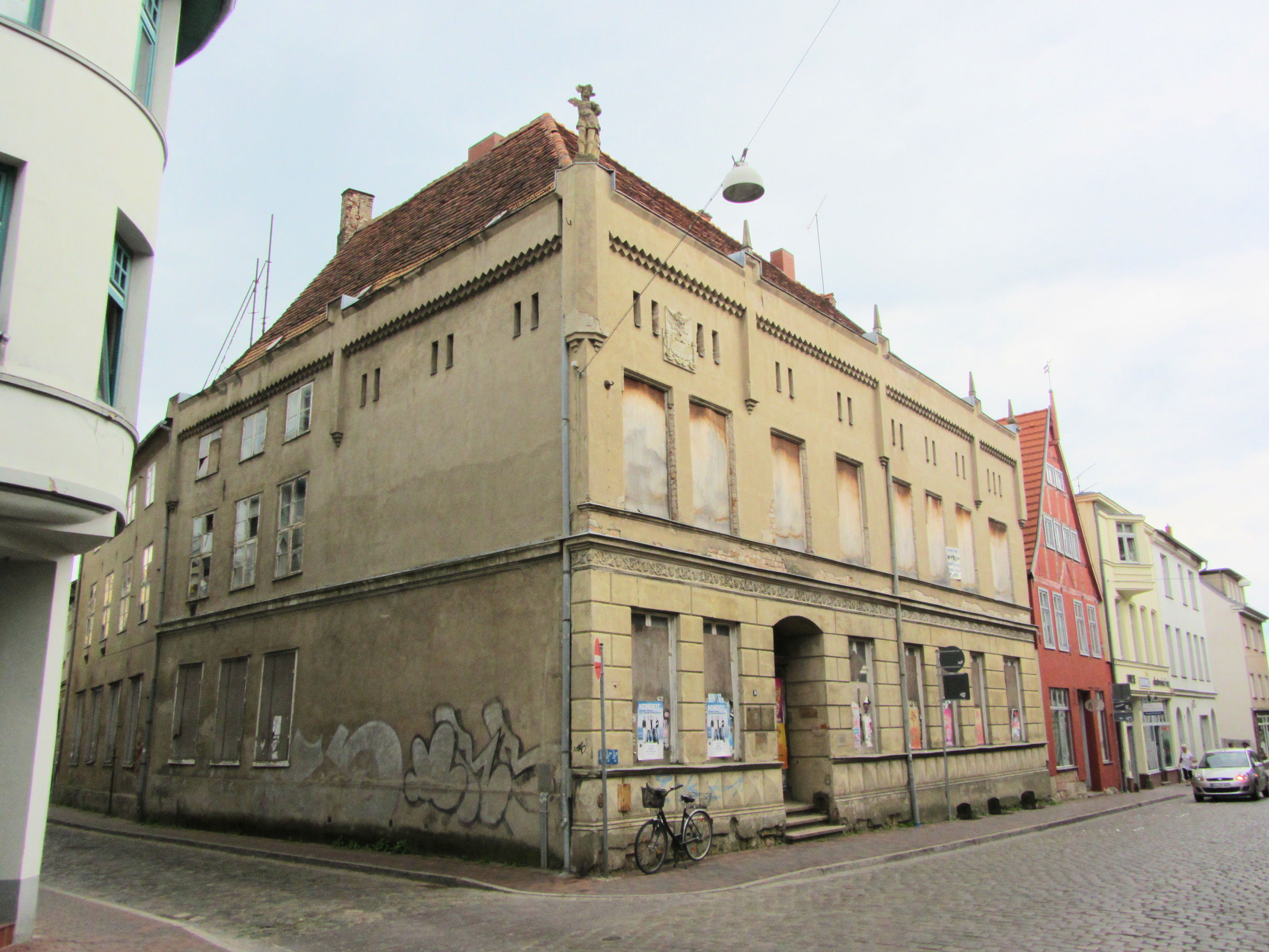 Building (see filename) in Güstrow, district Rostock, Mecklenburg-Vorpommern, Germany